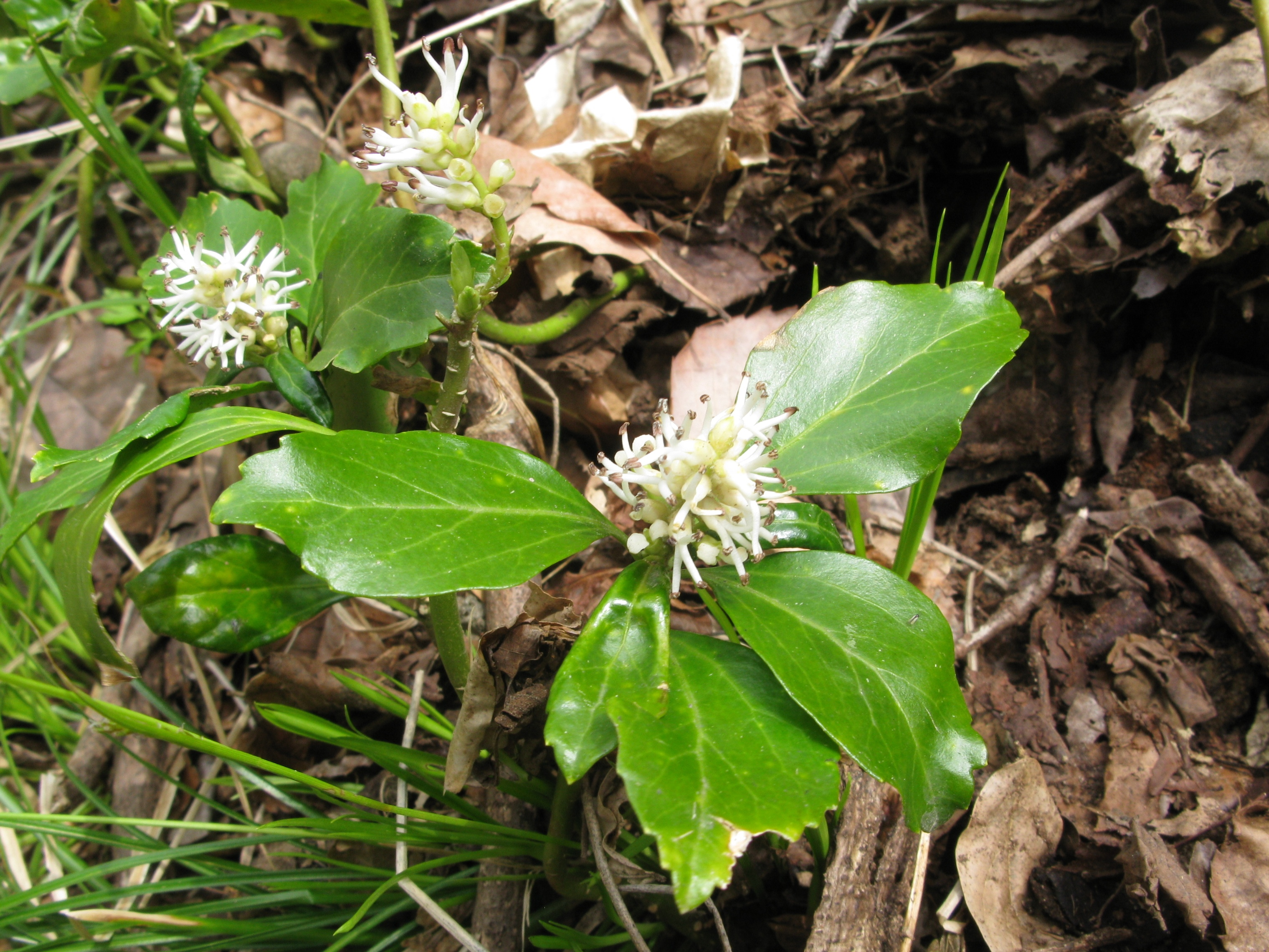 Pachysandra terminalis, Aizu area, Fukushima pref., Japan